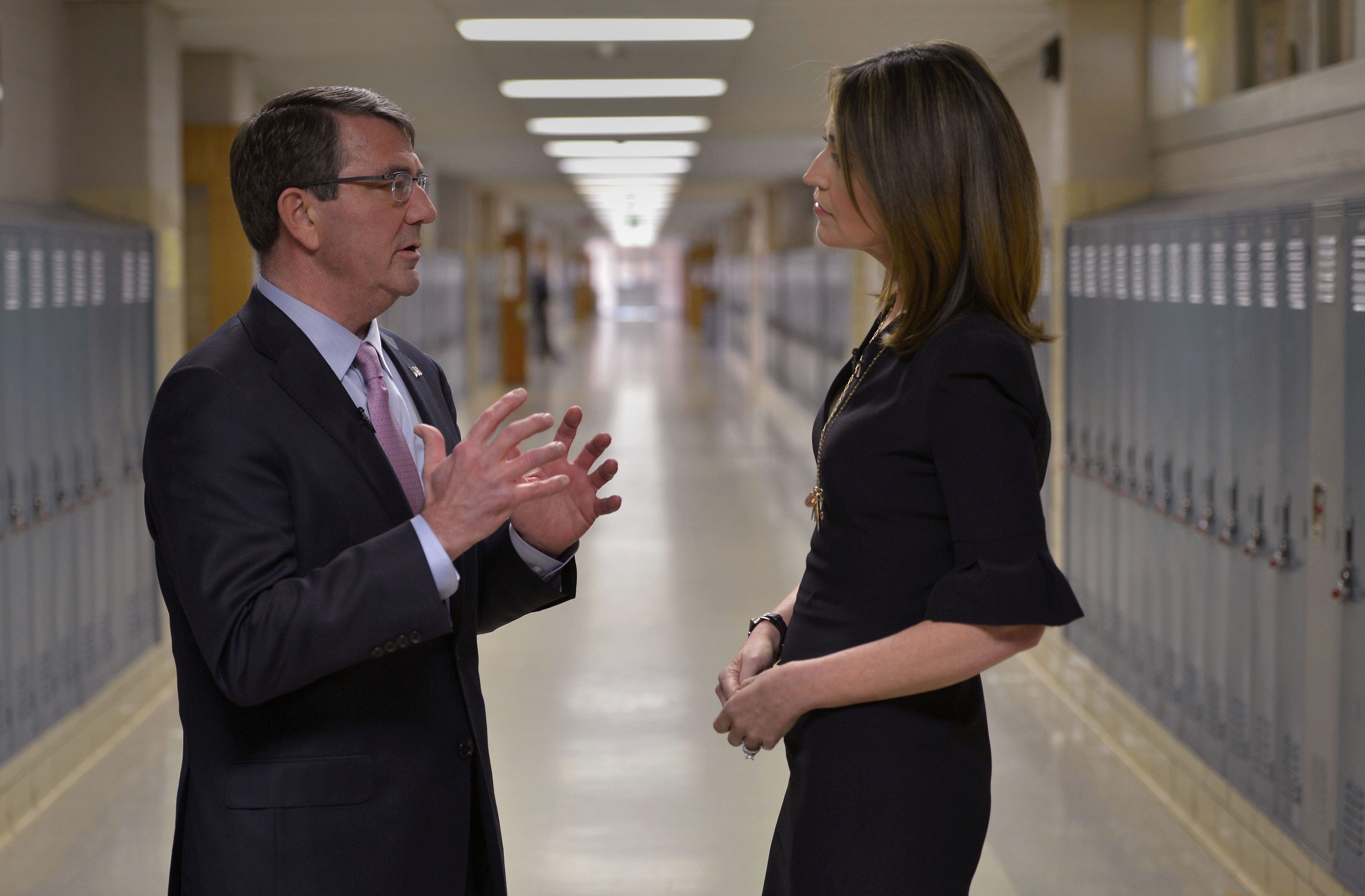 Secretary of Defense Ash Carter travels to Abington, Pa., to visit his alma matter Abington High School, March 30, 2015. Carter graduated from the school in 1972. DoD Photo by Glenn Fawcett (Released)